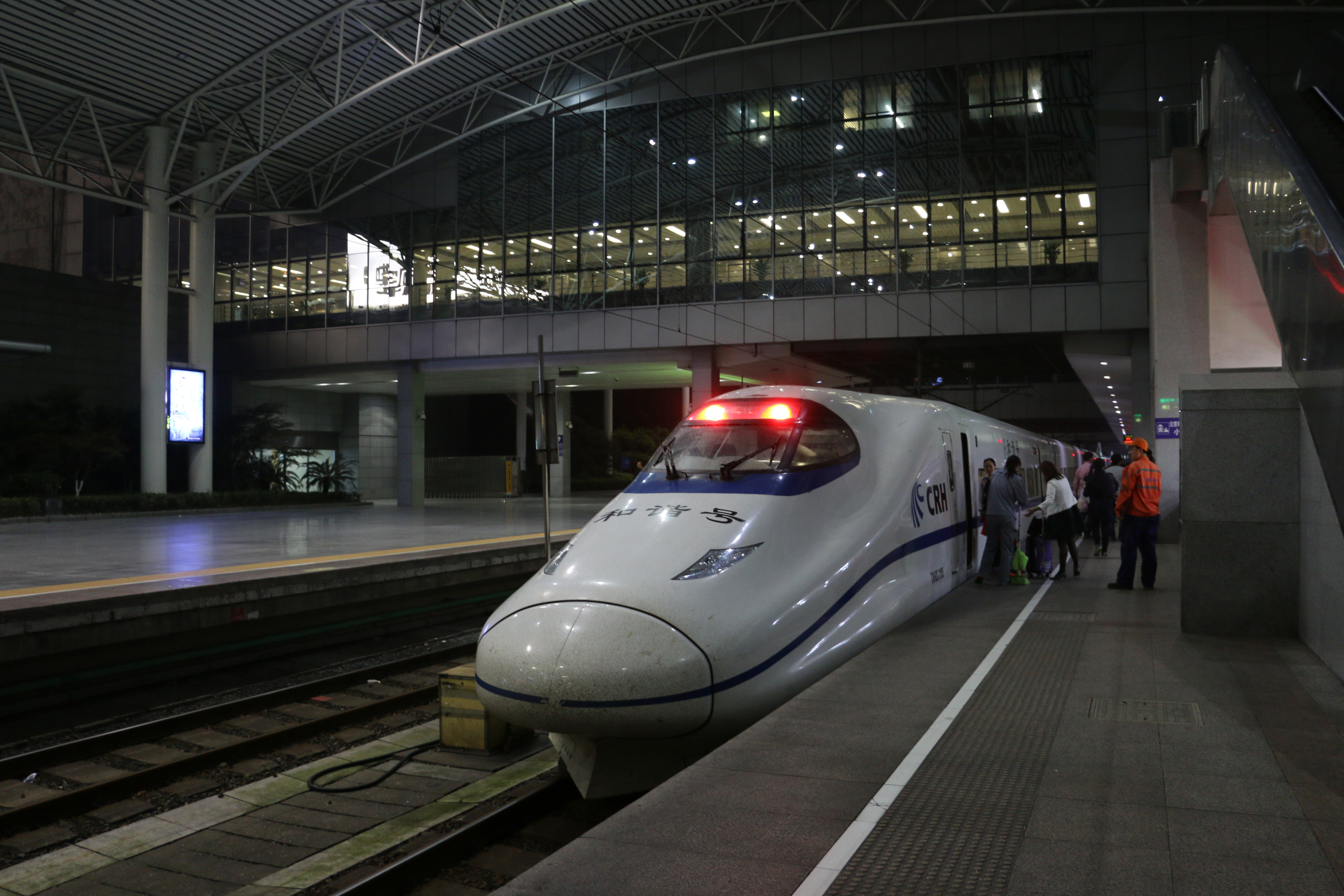 201604 CRH2C-2105 at SHA